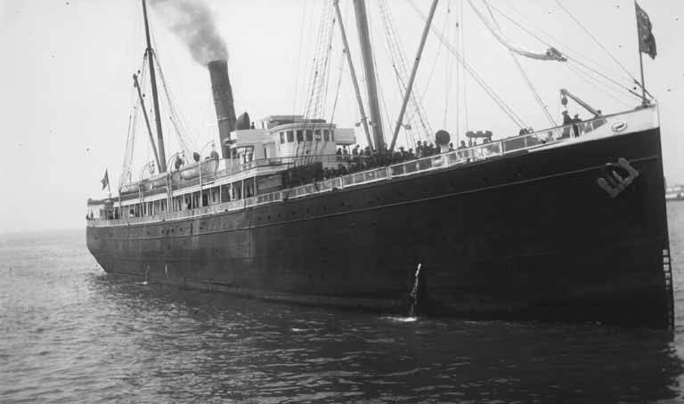 PH Coll 794.89 In 1898 the Union Iron Works in San Francisco built the SENATOR for the Pacific Coast Steamship Co. The SENATOR was a single-screw vessel of 2,432 tons, with dimensions 280x38.1x19.6 ft. and driven by a 1,500 horsepower triple-expansion engine. Her cruise speed was 10.8 knots and passenger capacity was 187. She was taken over by the government upon her completion for use with the Army Transport Service and carried 1,004 troops on her first voyage to Manila. Upon her return to the Pacific Coast Steamship Co. she was placed on the San Francisco-Seattle-Tacoma-Cape Nome route. In 1907 the vessel was placed on the Seattle-San Diego route. In 1912 the vessel resumed the Alaska route between Seattle and Nome. In 1916 the SENATOR was sold to East Coast owners. In 1921 she was overhauled and renamed the ADMIRAL FISKE. In 1934 she was sold to Japanese shipbreakers for disposal. (Source: Newell, Gordon, ed. "The H.W. McCurdy Marine History of the Pacific Northwest." Seattle: The Superior Company, 1966.) Subjects (LCSH): Senator (Ship); Ships--Washington (State)--Seattle